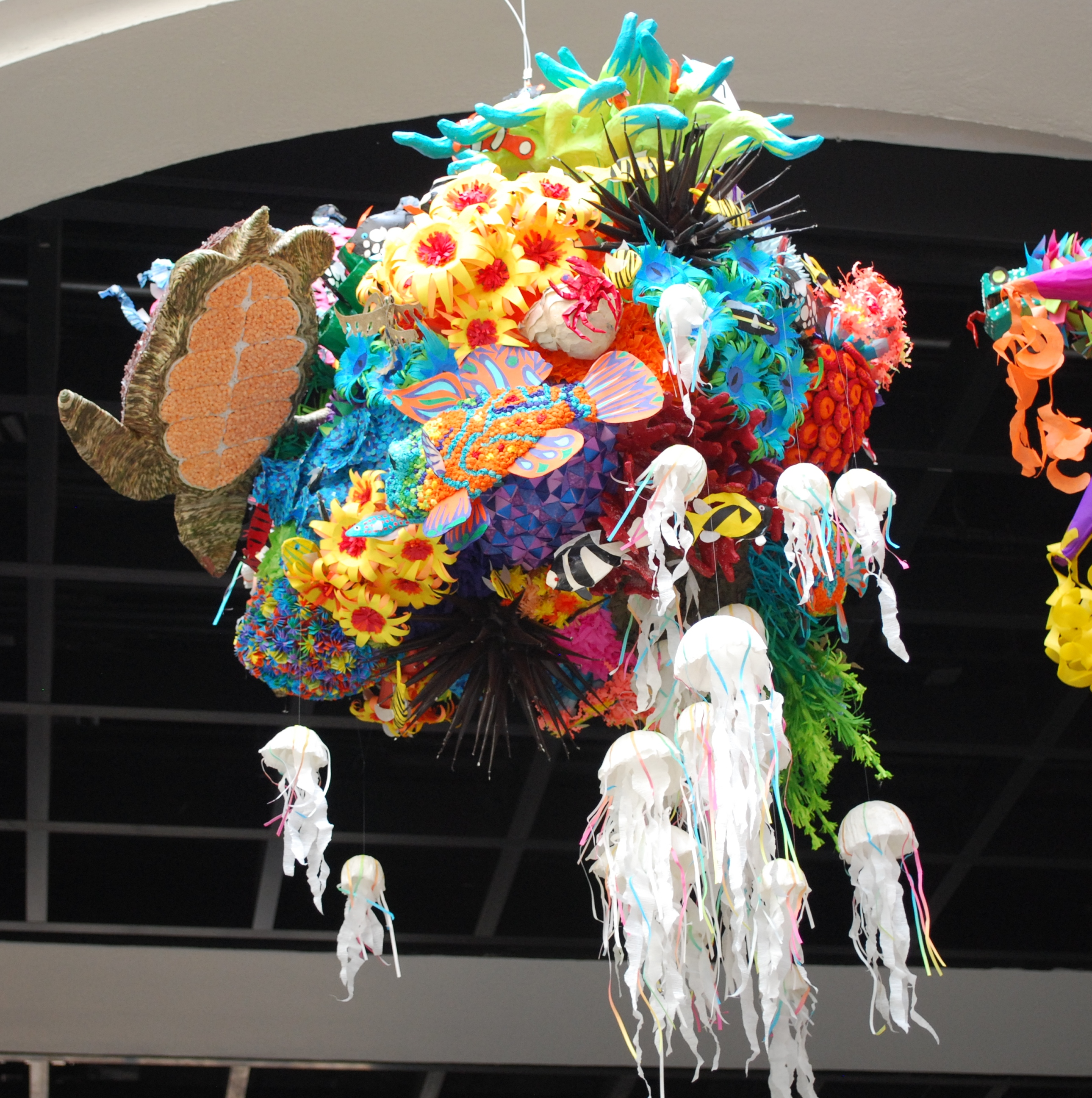 Winning piñata at the Sixth Piñata Contest of the Museo de Arte Popular in Mexico City